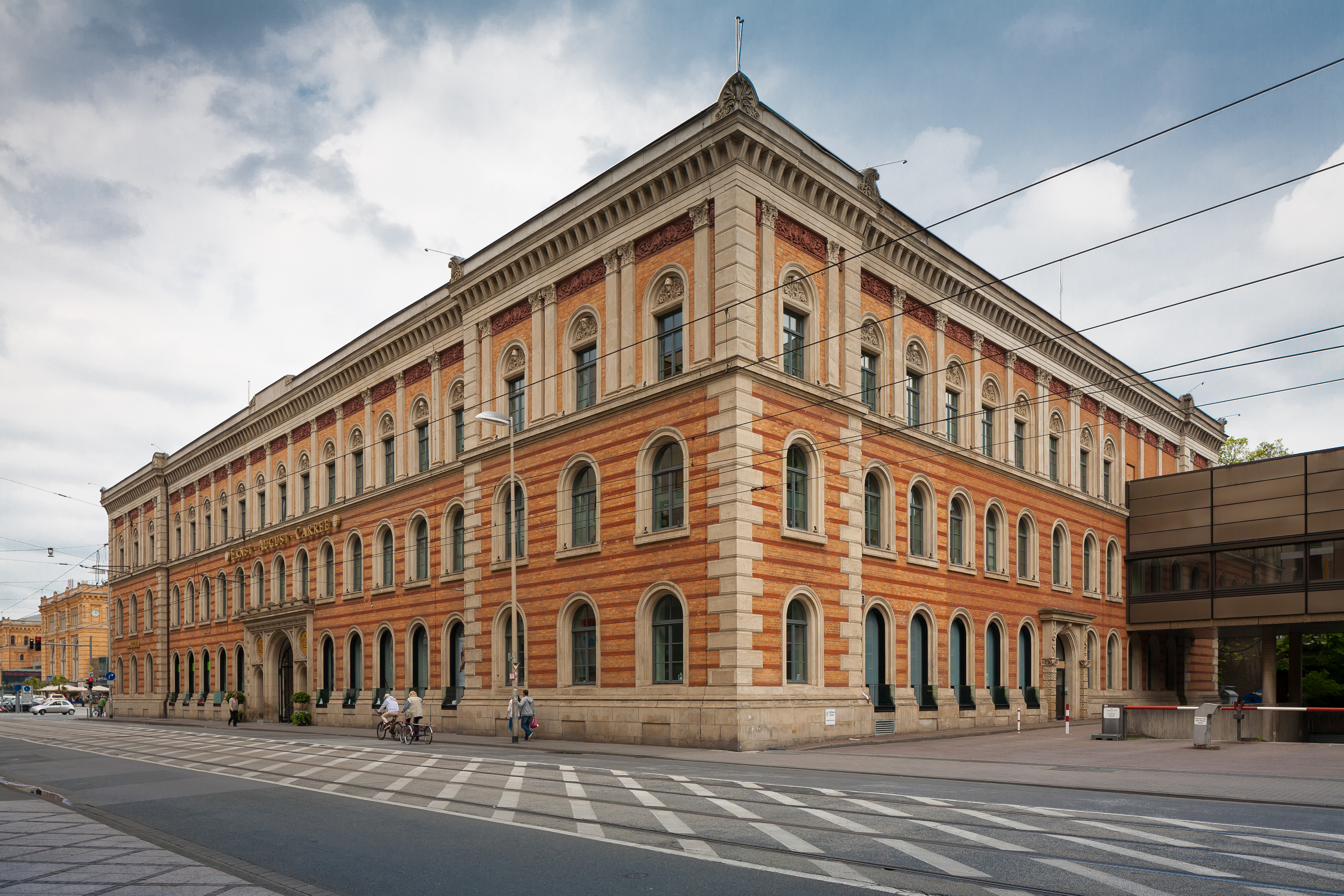 Shopping mall "Ernst-August-Carree" next to the central station, located at Joachimstrasse in Hanover, Germany.